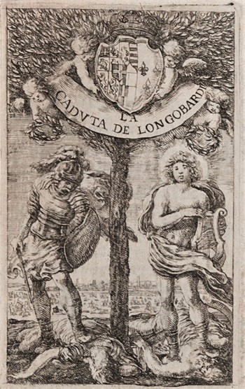 Frontispiece to Sigismondo Boldoni's epic poem La Caduta de' Lombardi